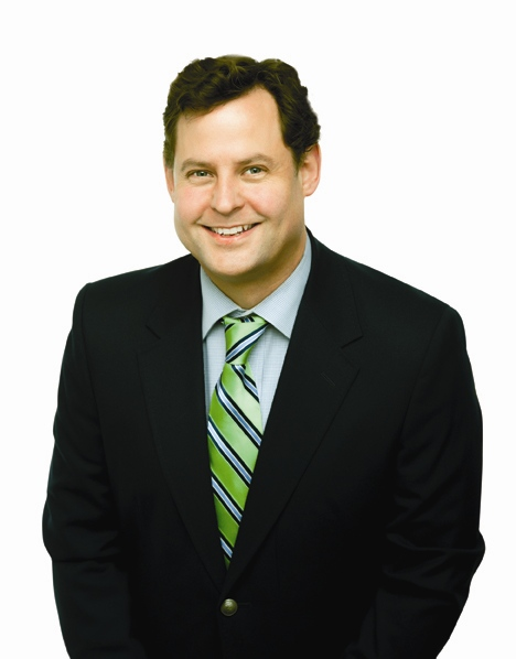 Picture of Chris Turner